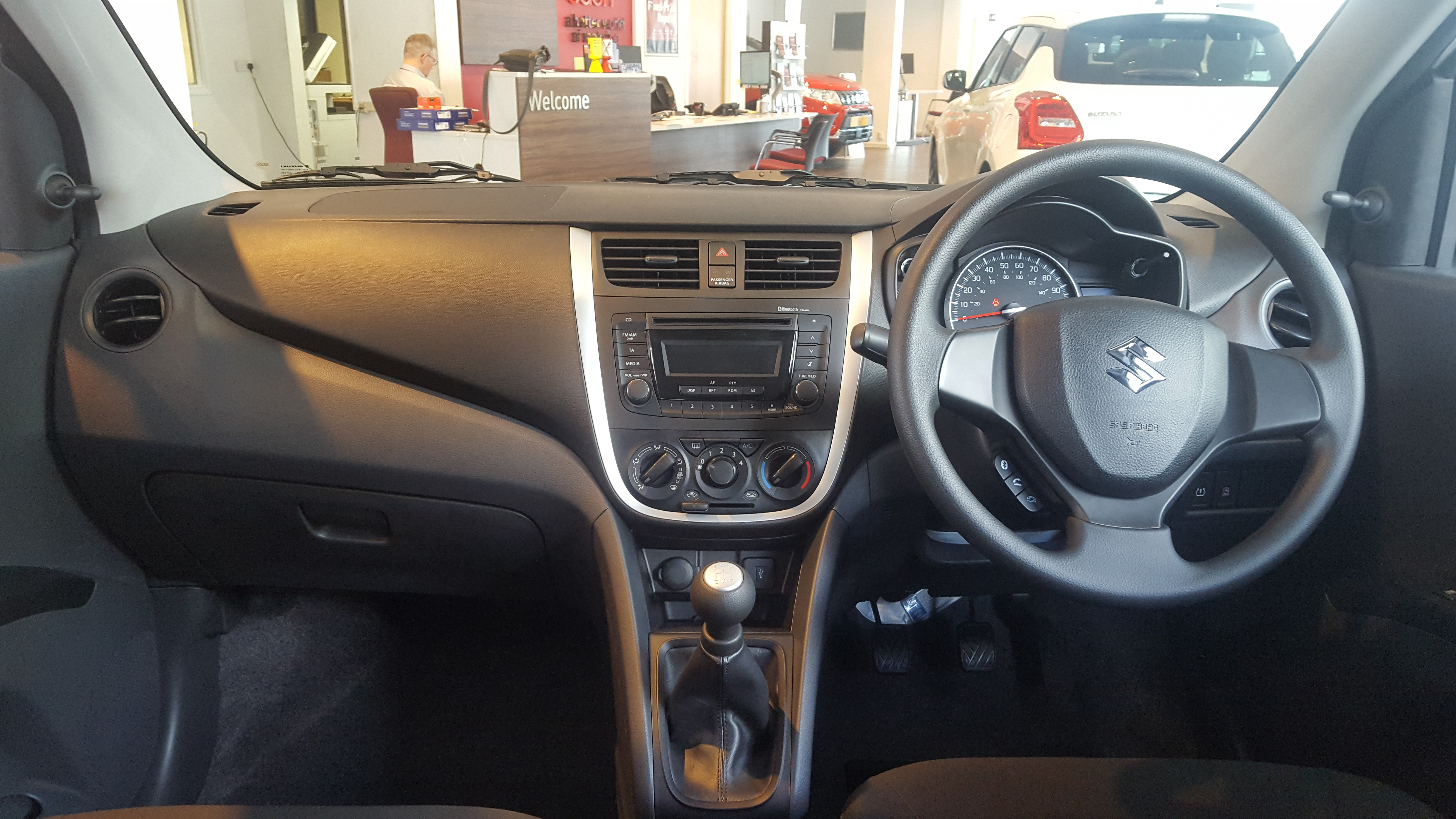 2019 Suzuki Celerio Interior Taken in Stratford-upon-Avon